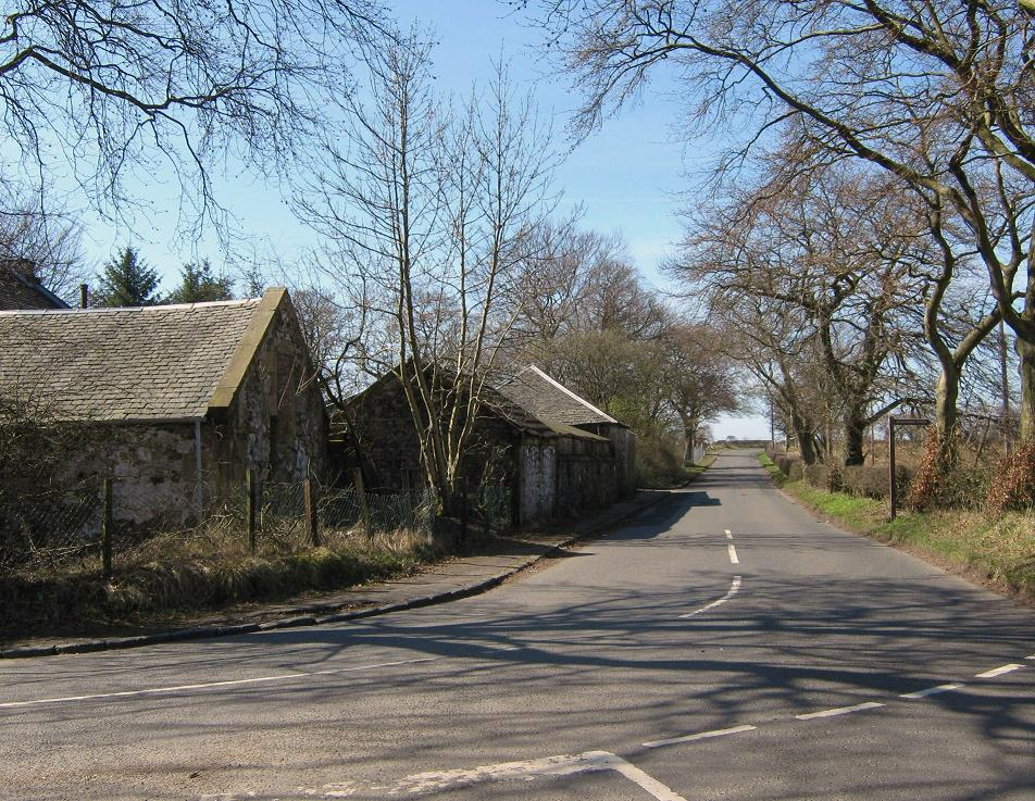 Approaching Meadowhead Meadowhead is on the left. The sign on the right is for Drumshangie Woodland Walk. There really isn't much to photograph in this grid square unless you like former opencast mines and housing estates.